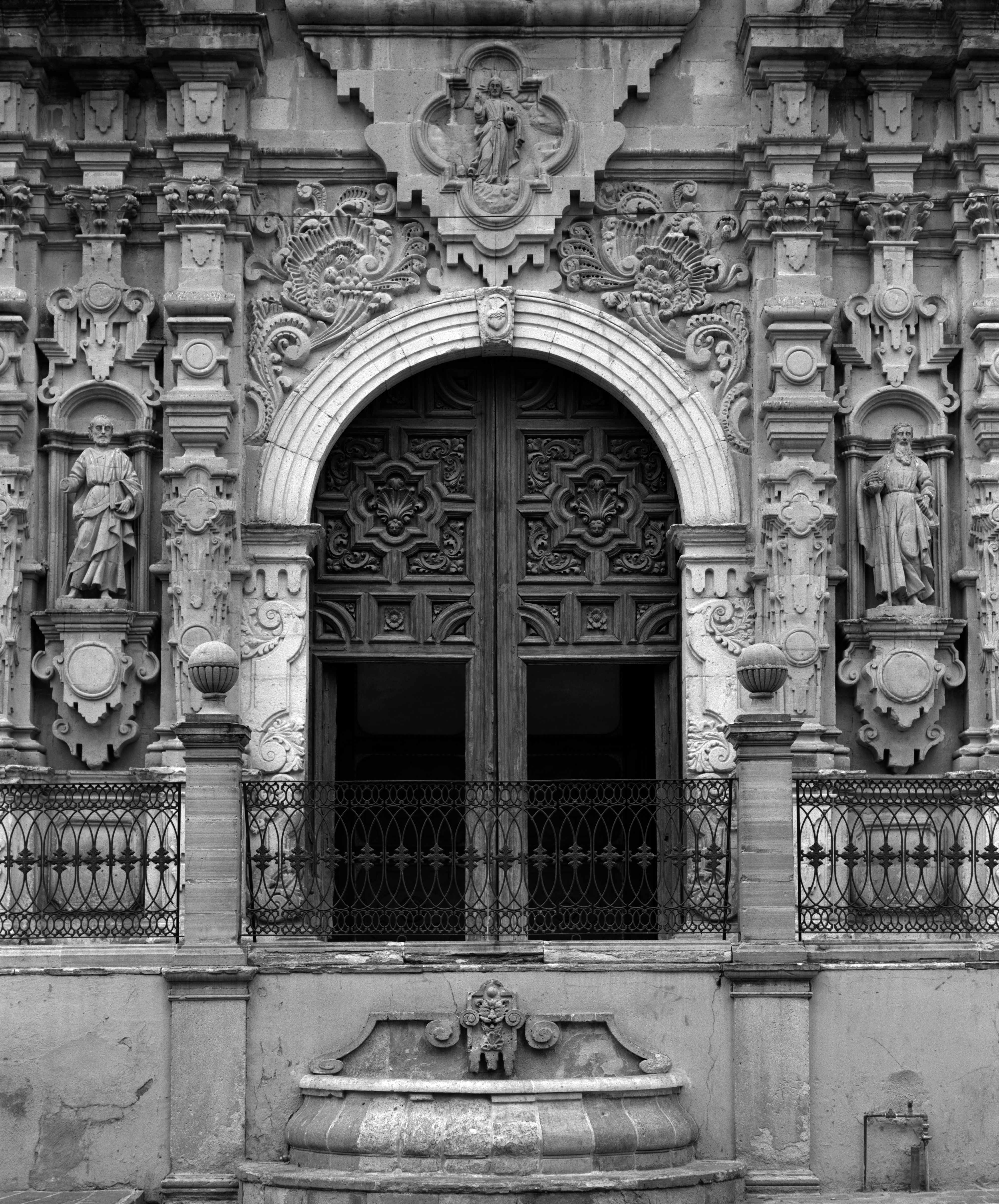 San Fransico Church, in the city of Guanajuato, Mexico.